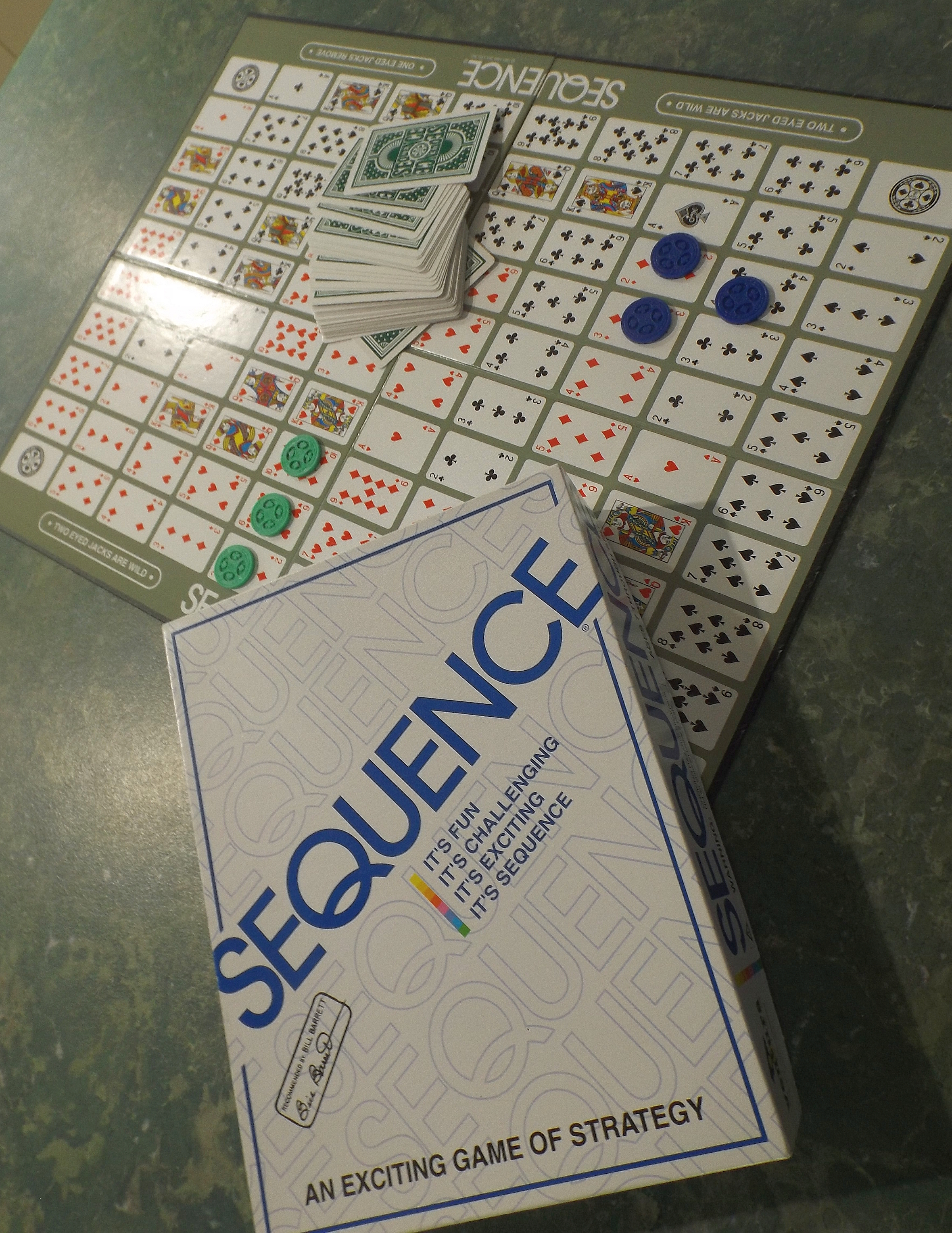 Photo of box, board, chips and cards for the game Sequence.